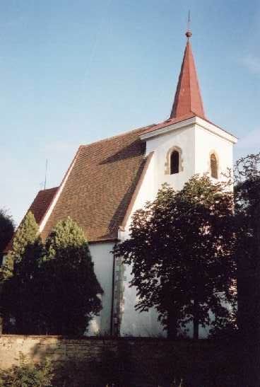 Village of Kresin, Northern Czechia, sv. Wencelslaw churche